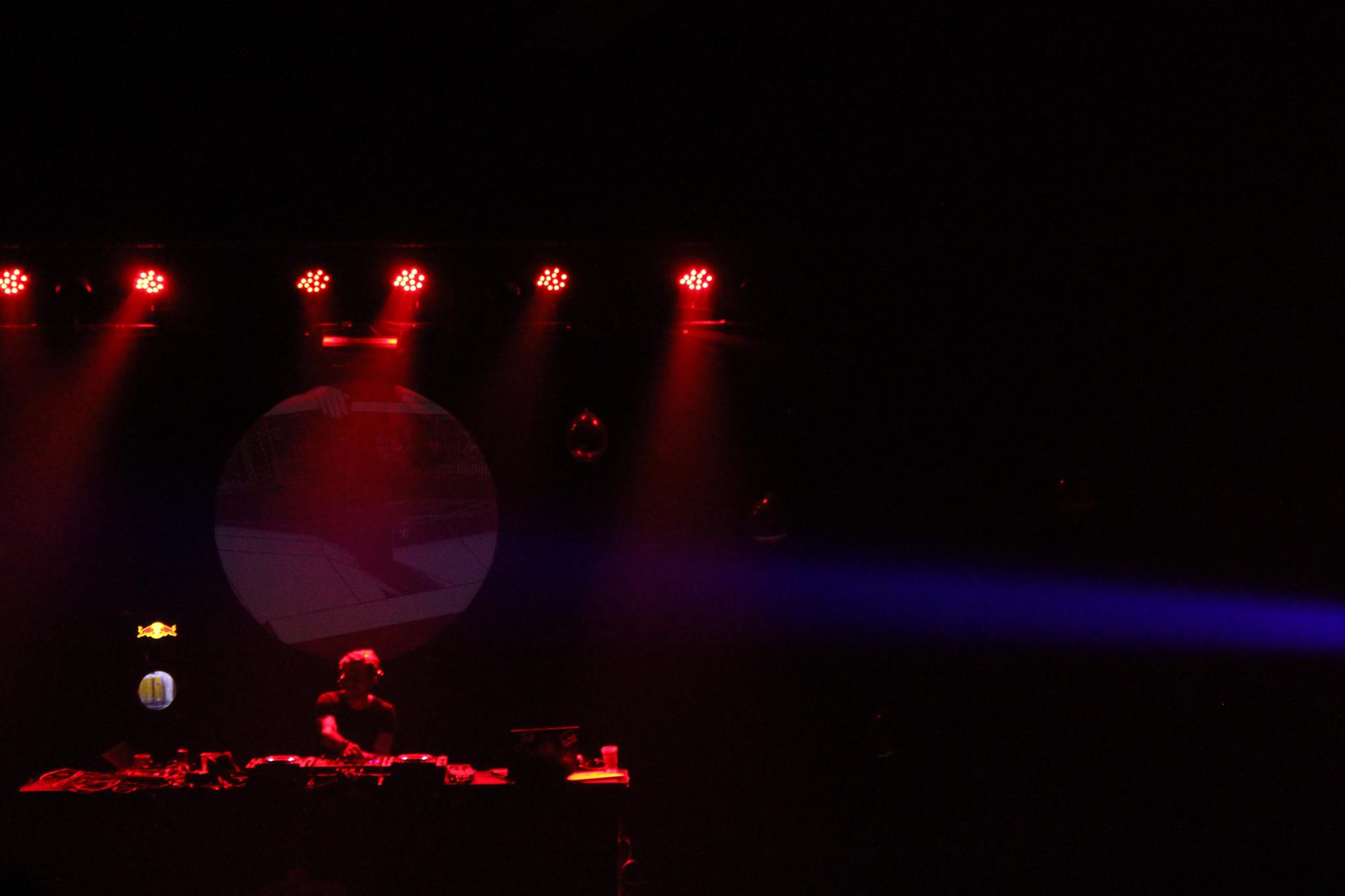 Franz Alice Stern performing in Sarajevo